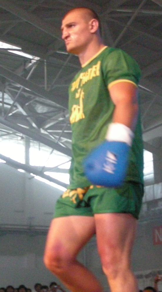 Cropped from original image.